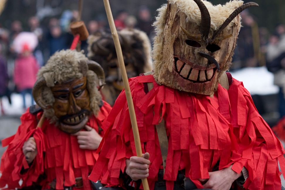 Kuker masks. XIX International Festival of Masquerade Games Pernik, 2010